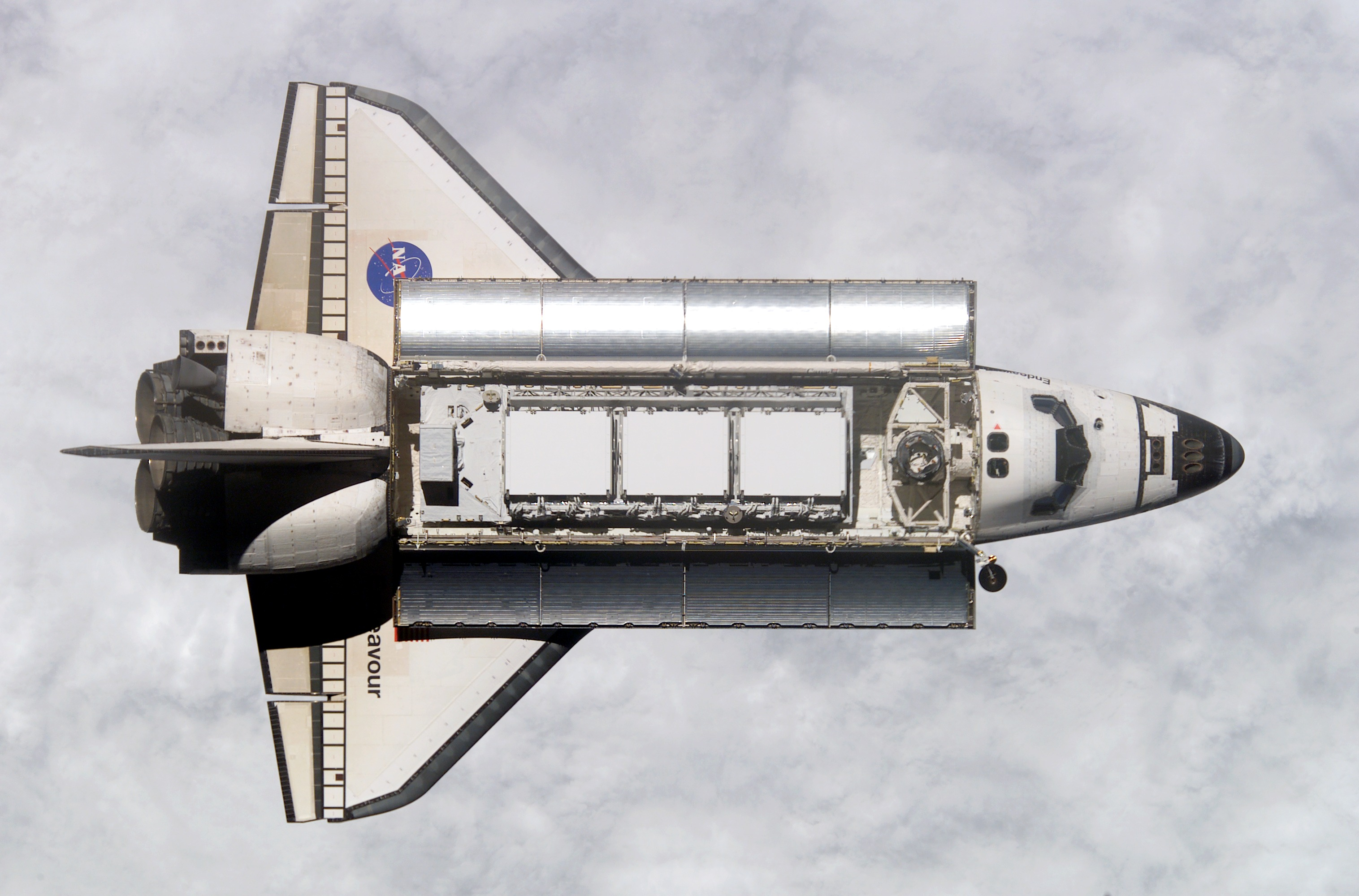 Space Shuttle Endeavour delivers P1 truss to the ISS (NASA) Backdropped by a blanket of clouds, the Space Shuttle Endeavour approaches the International Space Station (ISS) during STS-113 rendezvous and docking operations. Docking occurred at 3:59 p.m. (CST) on November 25, 2002. The Port One (P1) truss, which was later to be attached to the station and outfitted during three spacewalks, can be seen in Endeavour's cargo bay